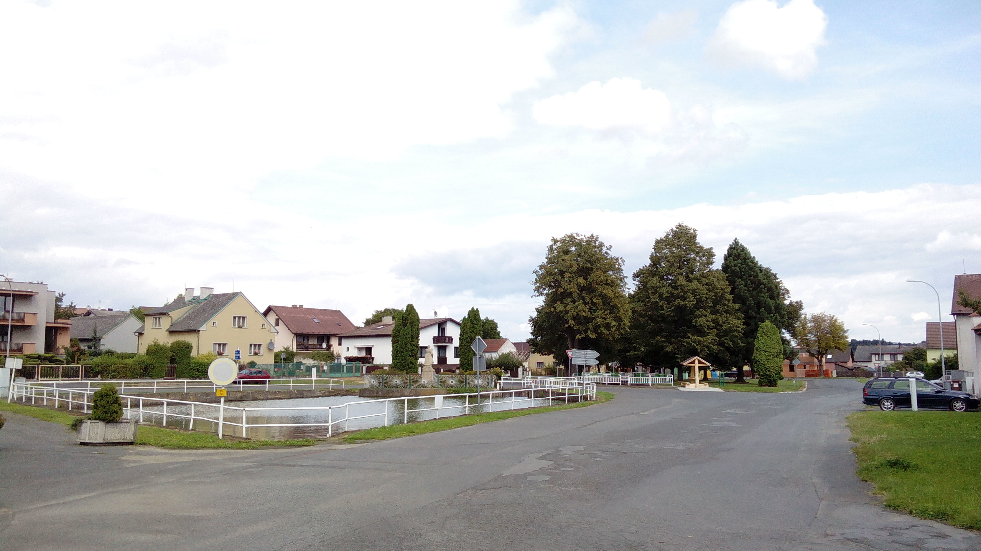 Village green in Tlumačov, Plzeň Region, Czech Republic.